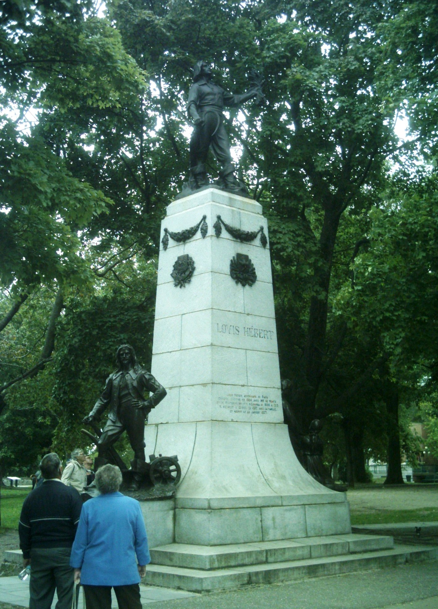 Hebert's monument at Montmorency park in Quebec City